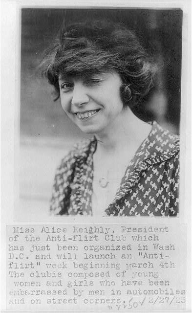 Miss Alice Reighly, President of the Anti-flirt Club which has just been organized in Wash., D.C. and will launch an "Anti-flirt" week beginning March 4th - the club is composed of young women and girls who have been embarrassed by men in automobiles and on street corners